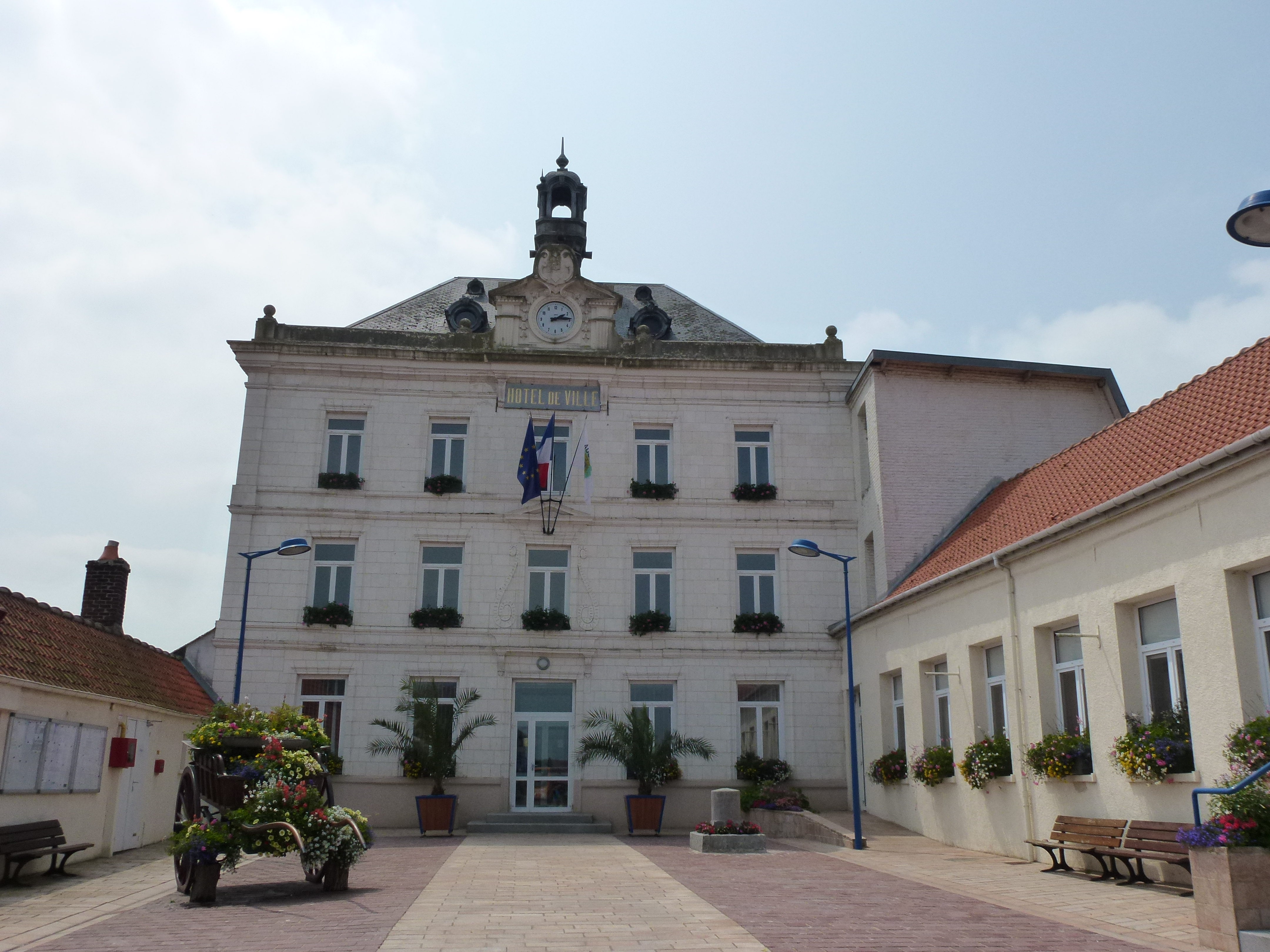 Auchel (Pas-de-Calais, Fr) mairie